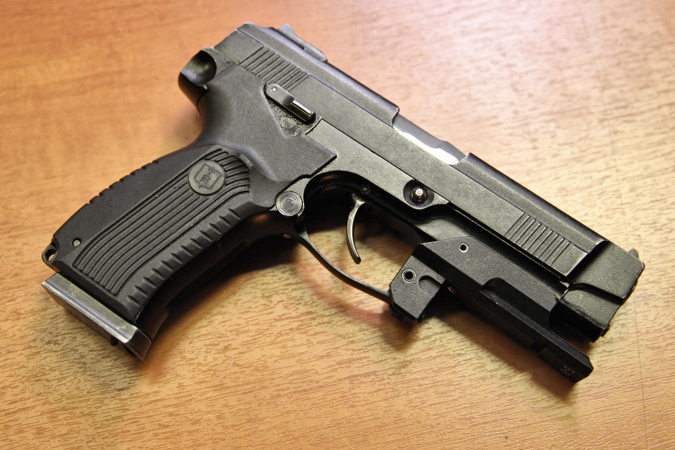 PYa Yarigin pistol - Moscow OMON